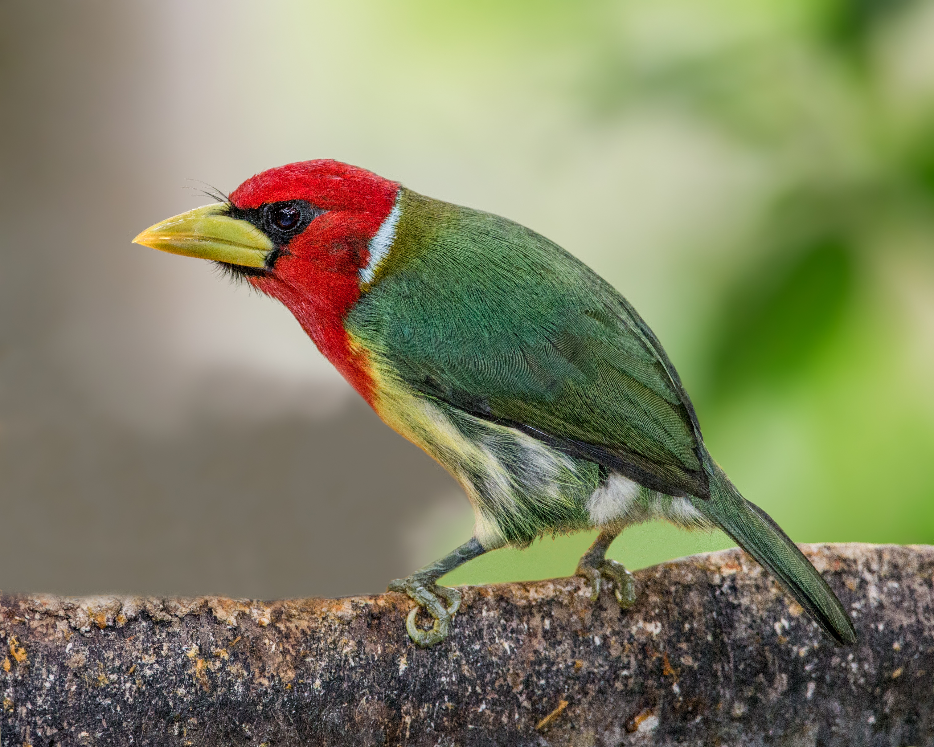 This Red-headed Barbet was photographed at Tandayapa Bird Lodge in Ecuador.